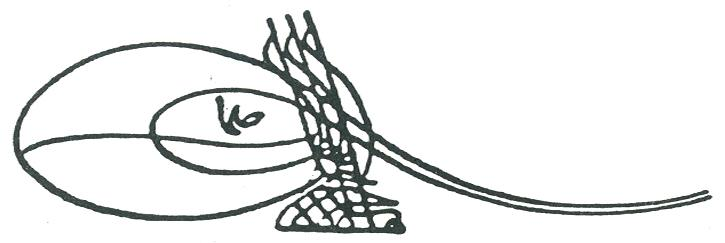 Tughra (i.e., seal or signature) of Murad IV, Sultan of the Ottoman Empire (1623-1640). An explanation of the different elements composing the tughra can be found here.